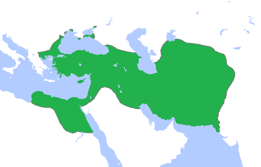 Locator map of the Persian Empire, c. 500 BC. (Partially based on Atlas of World History (2007) - The World 750-500 BC, map)